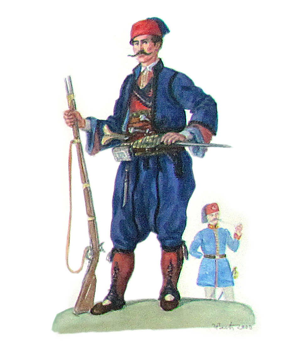 Serbian pandur water colour C Vasic